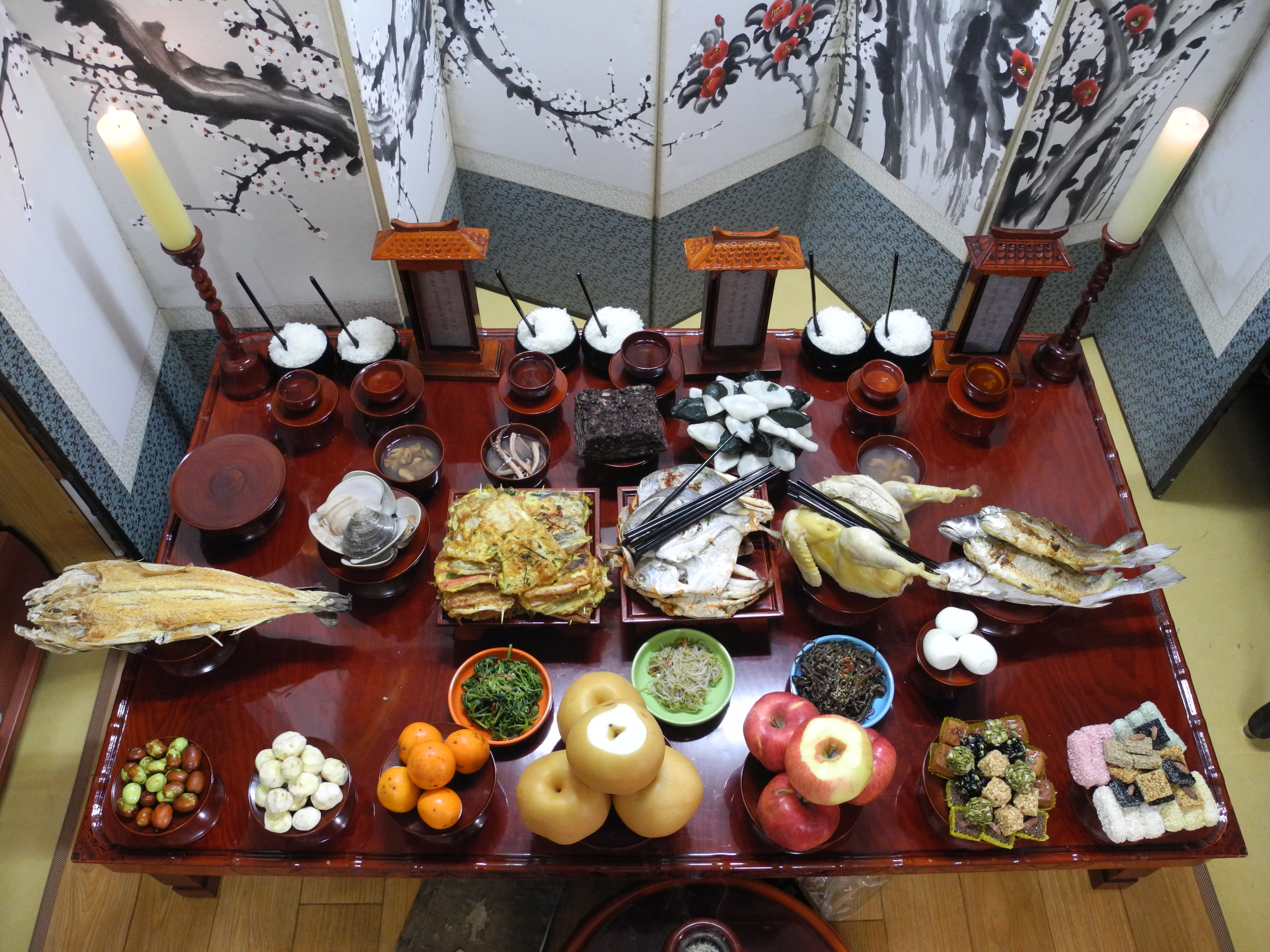 Chuseok - formally set table on Korean Thanksgiving